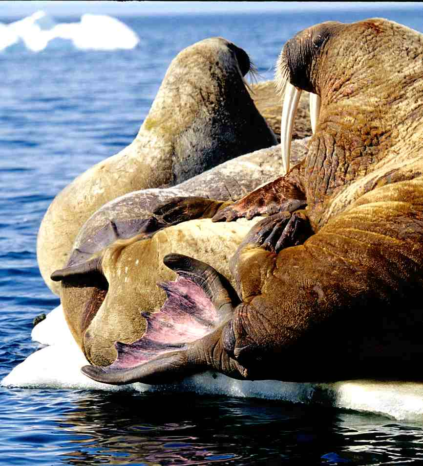 Flippers of Atlantic walrus (Odobenus rosmarus rosmarus), on ice flow in Foxe Basin (Nunavut, Canada)